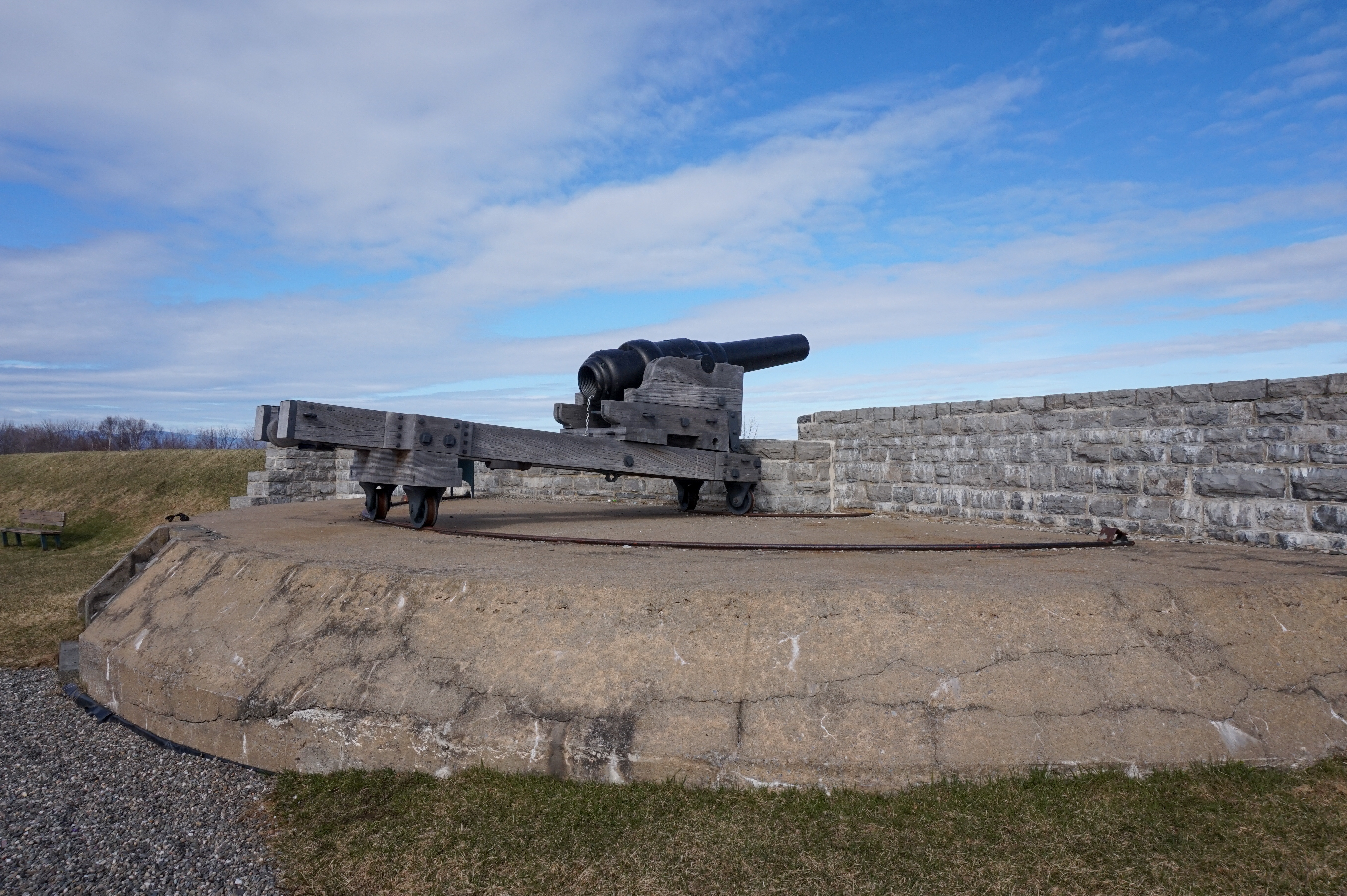 RBL 7 inch Armstrong gun in Fort No. 1, Lévis, Québec, Canada